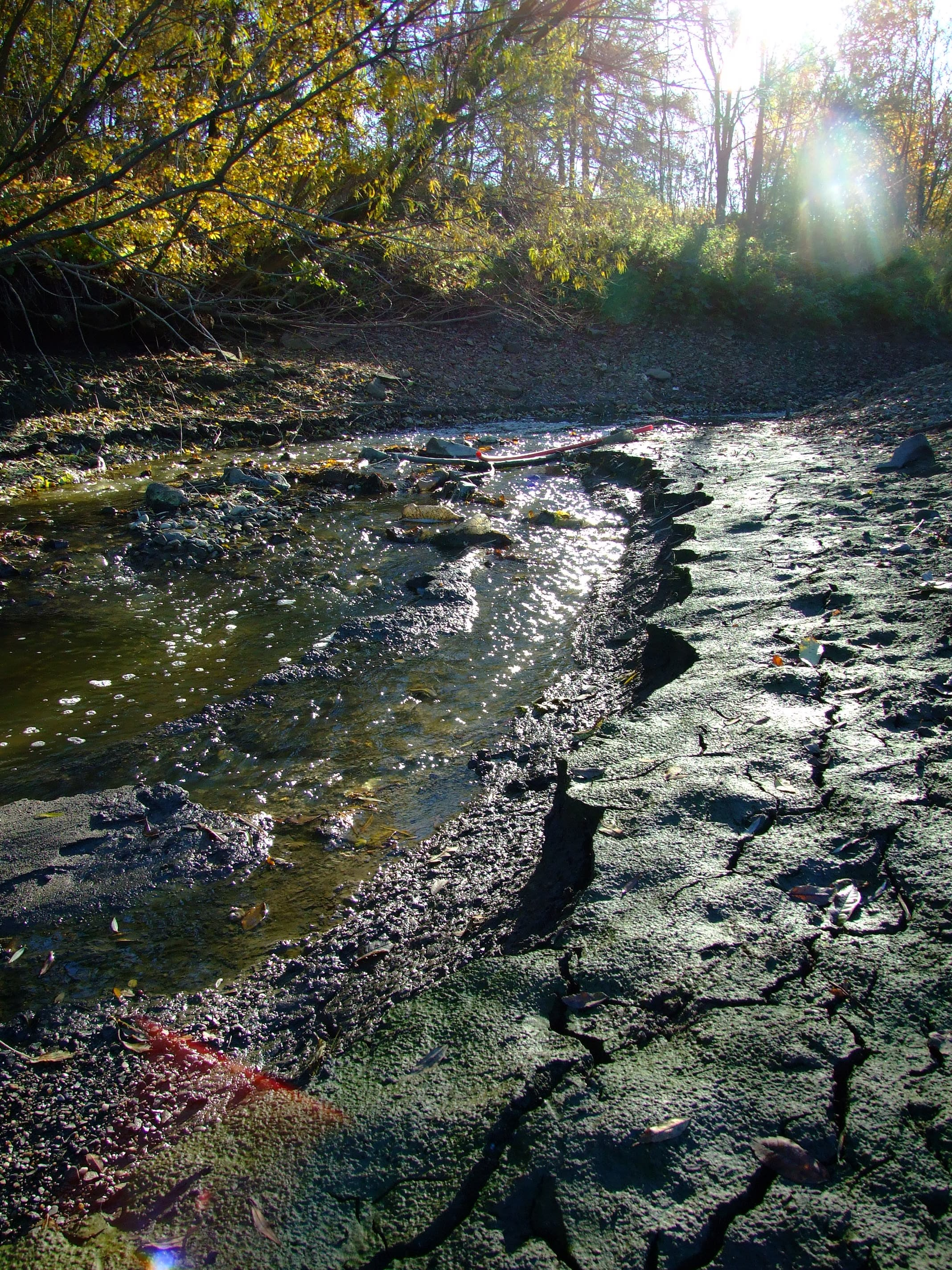 Litovický potok creek in Prague Ruzyně